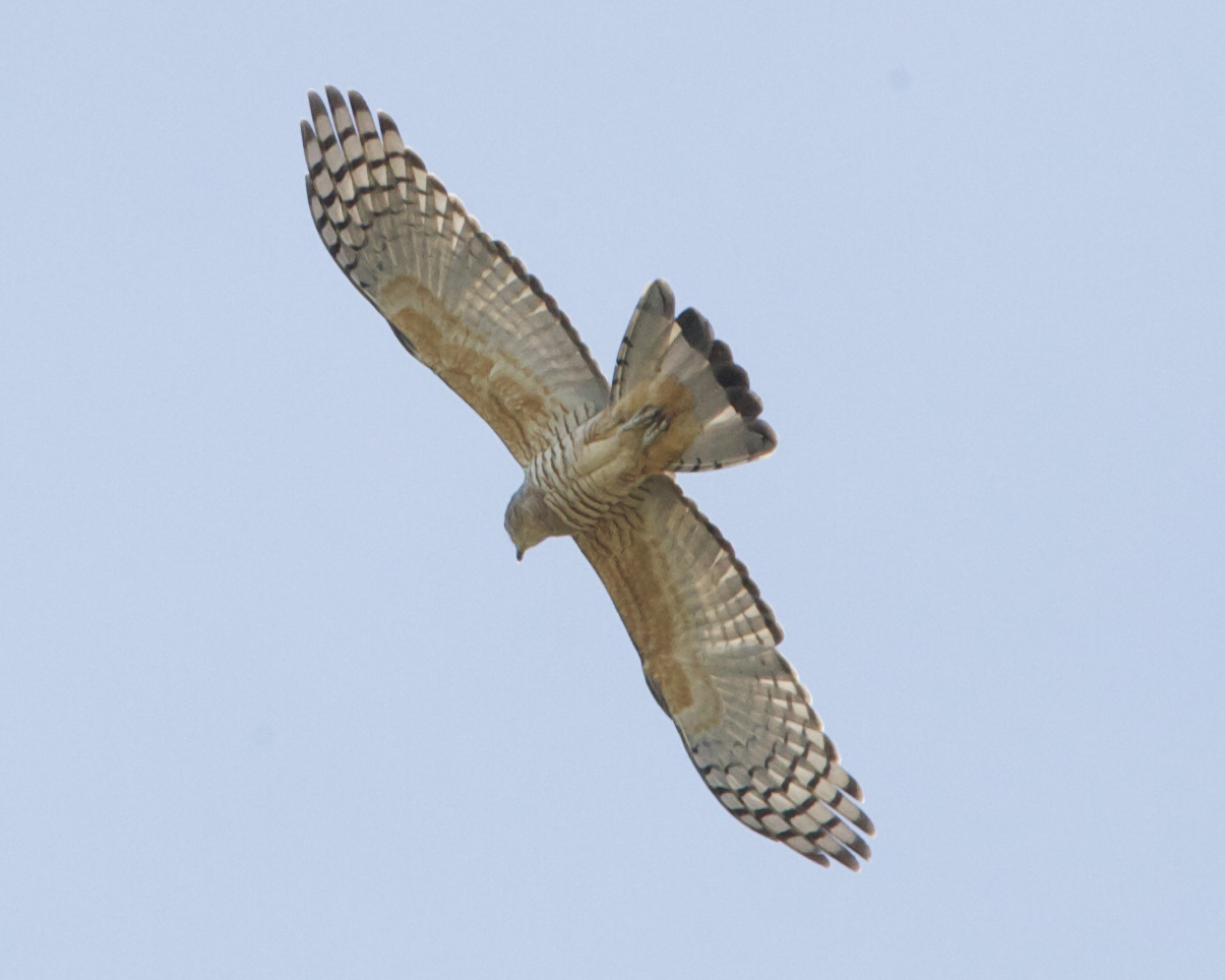 A Pacific Baza flying in Darwin, Northern Territory, Australia.